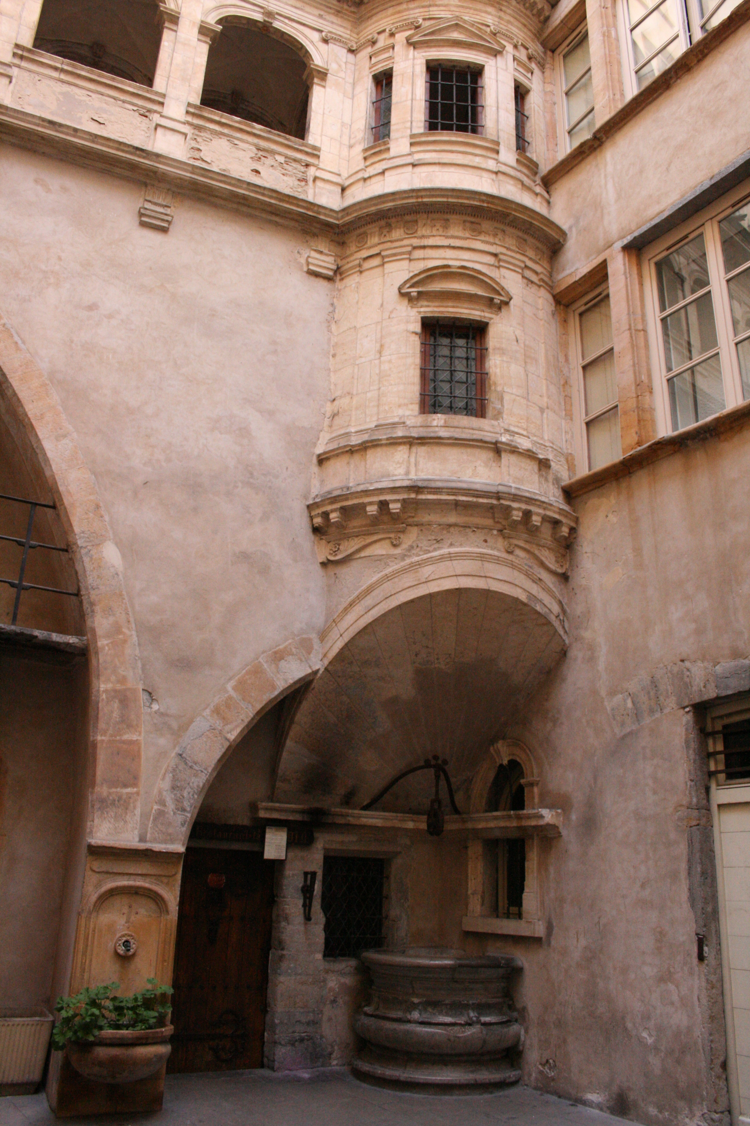 Hôtel de Bullioud, rue de la Juiverie, Lyon, Ve arrondissement (France). Gallery on squinches by Philibert Delorme (1536)